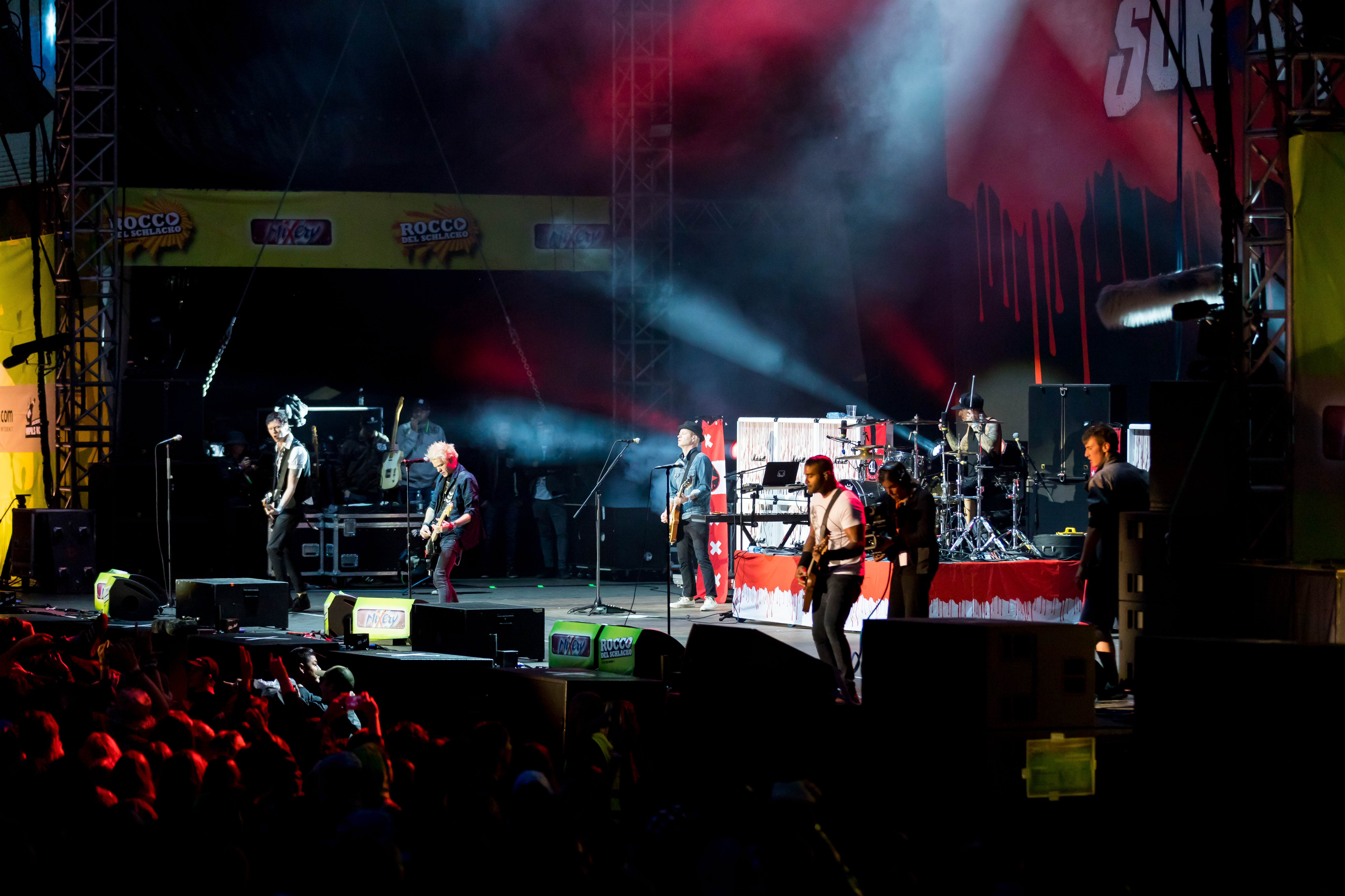 Sum 41 during Rocco del Schlacko 2016 at , Püttlingen, Saarland, Germany on 2016-08-11, Photo: Sven Mandel